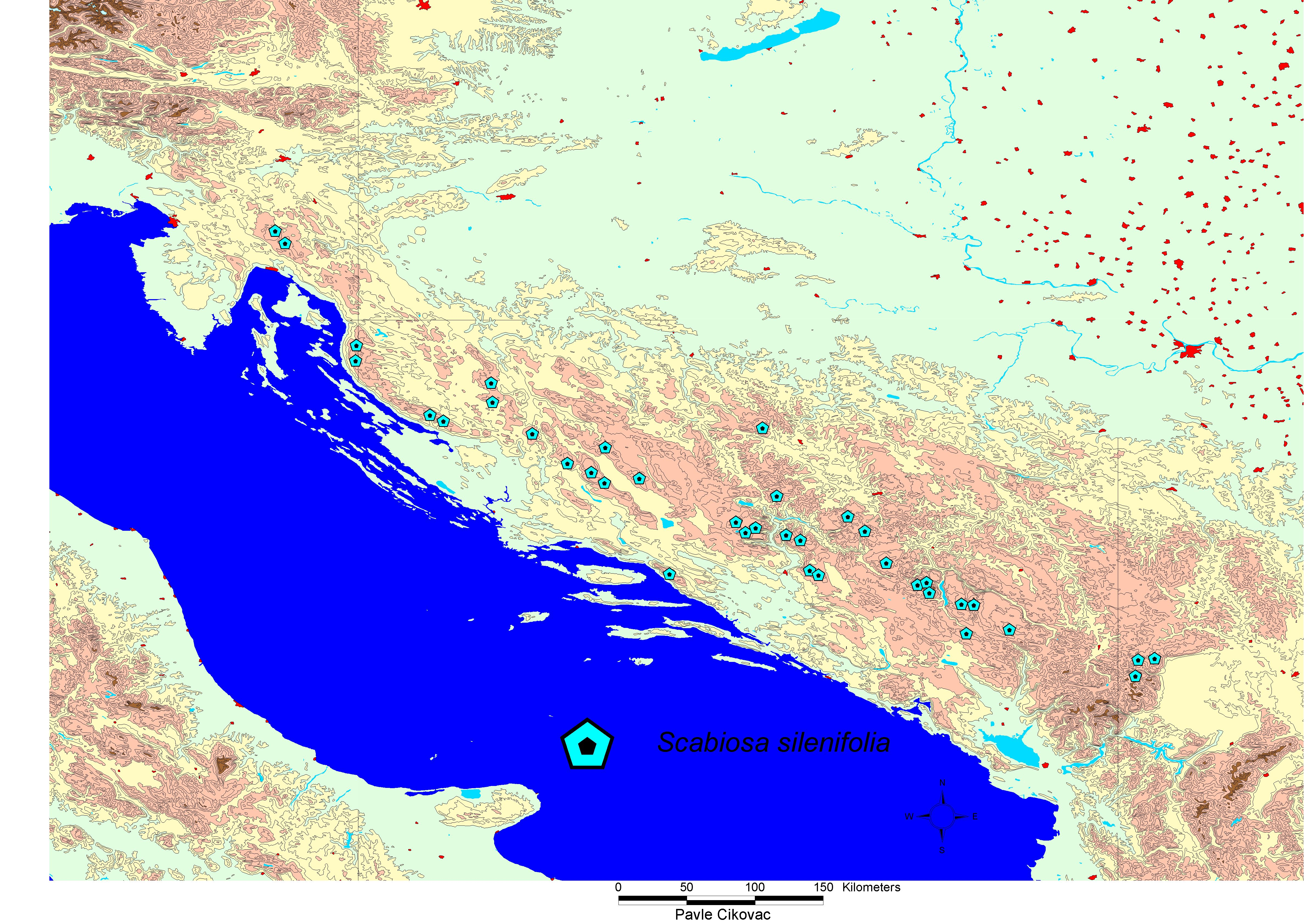 Map after Sabaheta Abadzic, Rasprostranjenost vrste Scabiosa silenifolia Waldst. & Kit. na Dinaridima, Glasnik Zemaljskog Muzeja Sarajevo, 31, 1992-95, 275-283, Addition to Biokova after the collection made by Silic